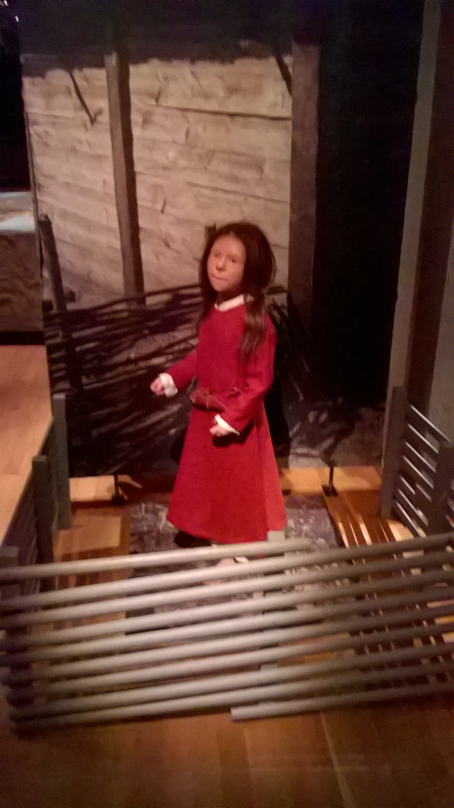 This is a reconstruction on a femal skeleton founded in Birka, at Swedish History Museum Stockholm